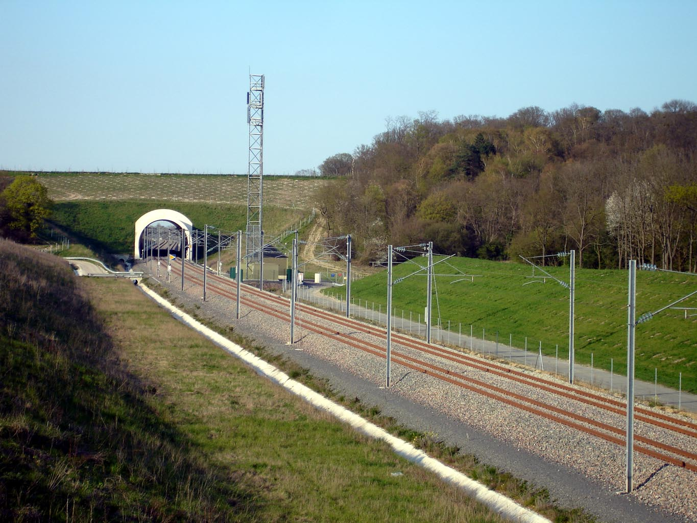 The LGV Est européenne high-speed railway line near Pomponne/Seine-et-Marne in April 2007.